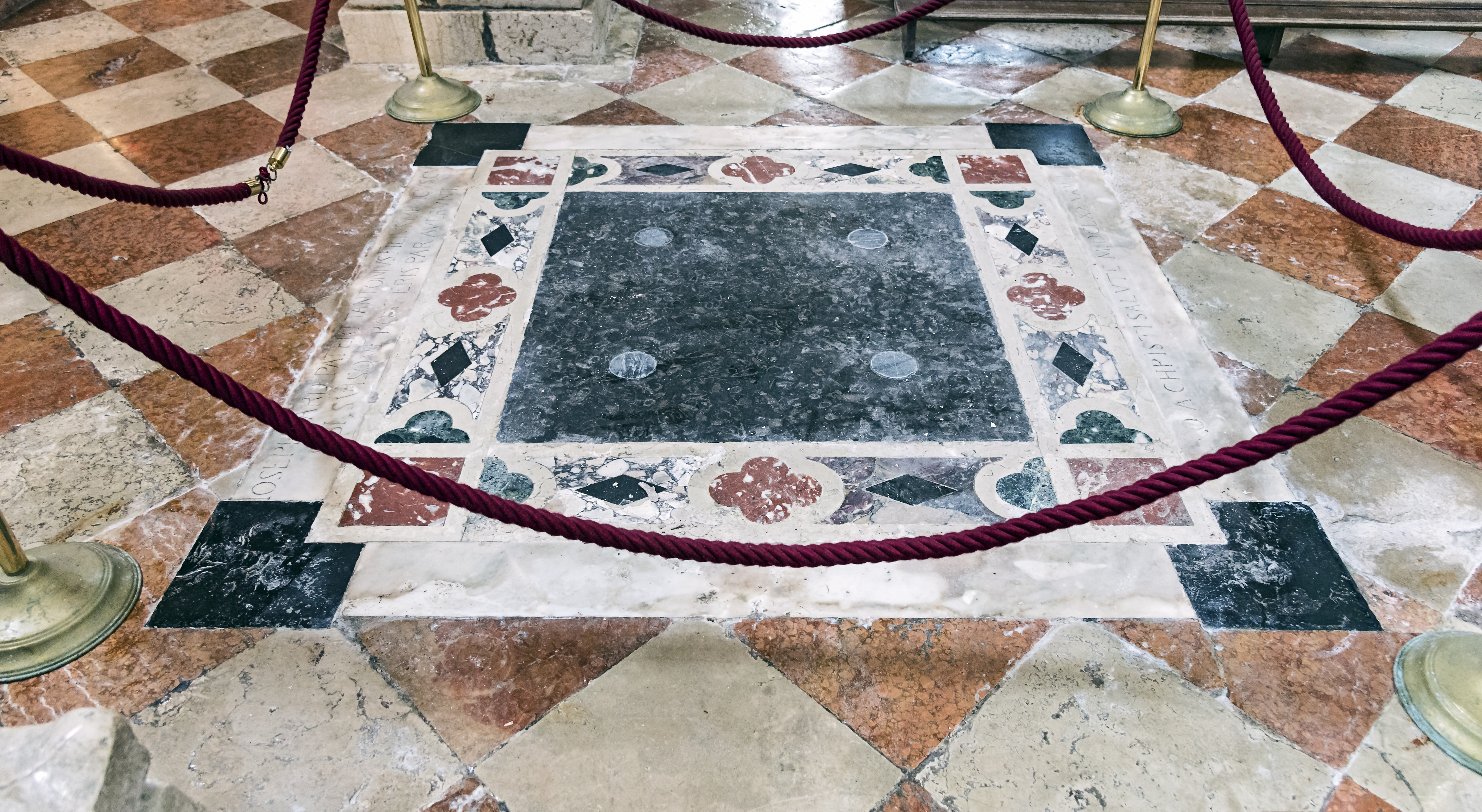 Santa Maria dei Carmini church in Venice. Tomb of Giuseppe Sardi (1624-1699) architect and his son Aton Giacomo doctor. Restoration supported by the Svizzea pro Venezi Foundation in 2010 UNESCO program.